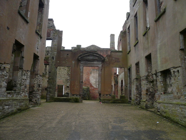 Sutton Scarsdale Hall - (Front View, Centre Section)